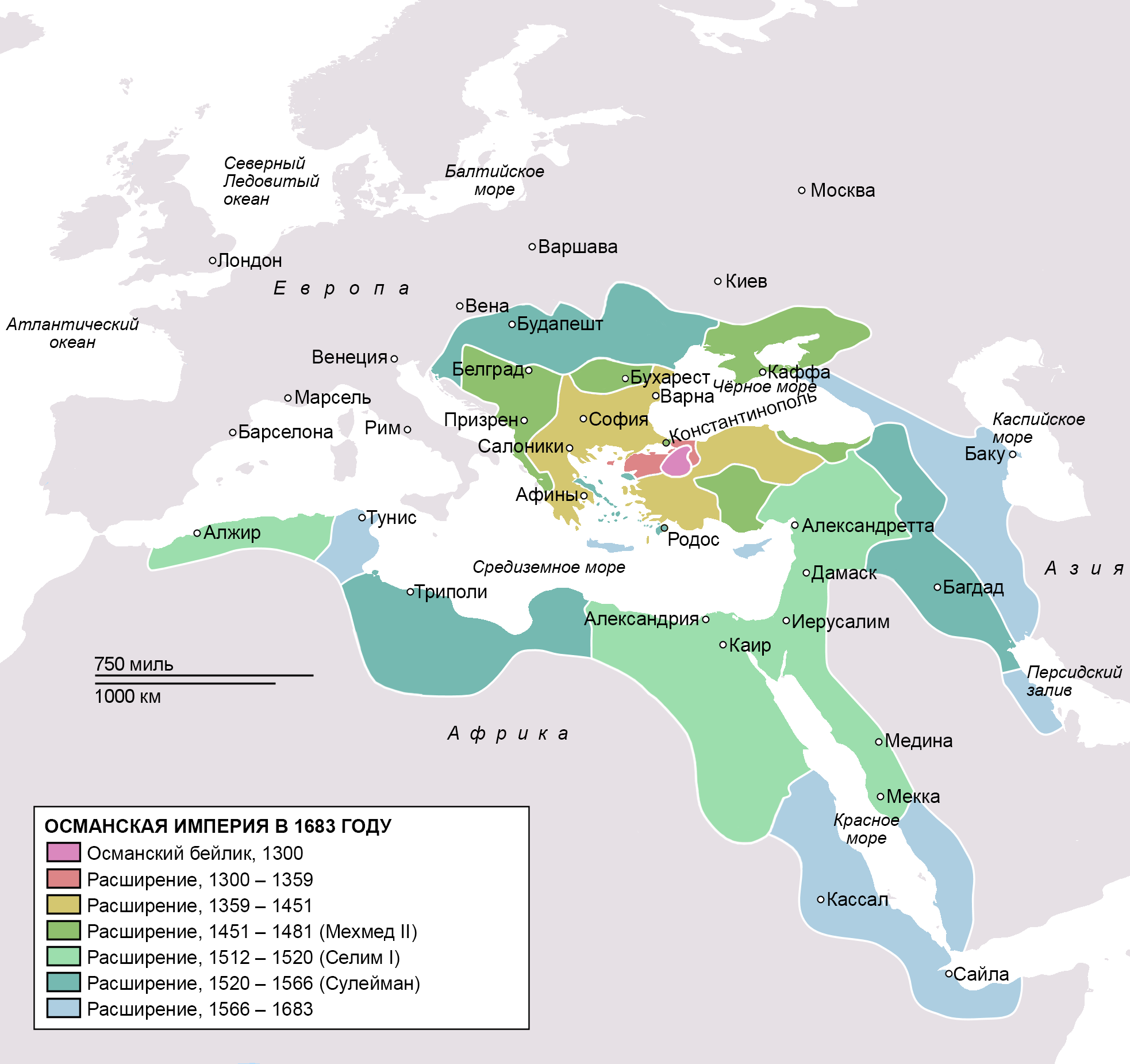 Map depicting the Ottoman Empire at its greatest extent, in 1683